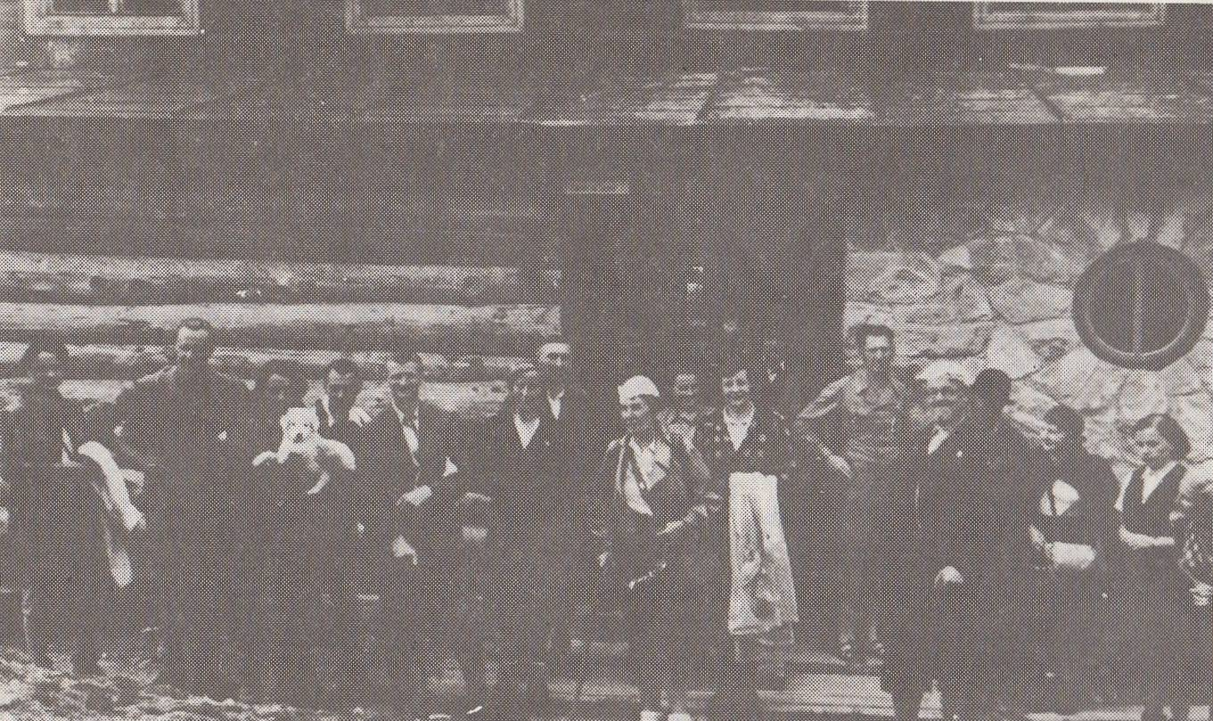 Mountain hut of Polish Tatra Association near Syvulia